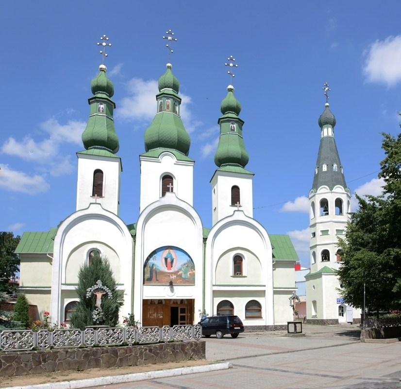 Church in Mukachevo, Ukraine